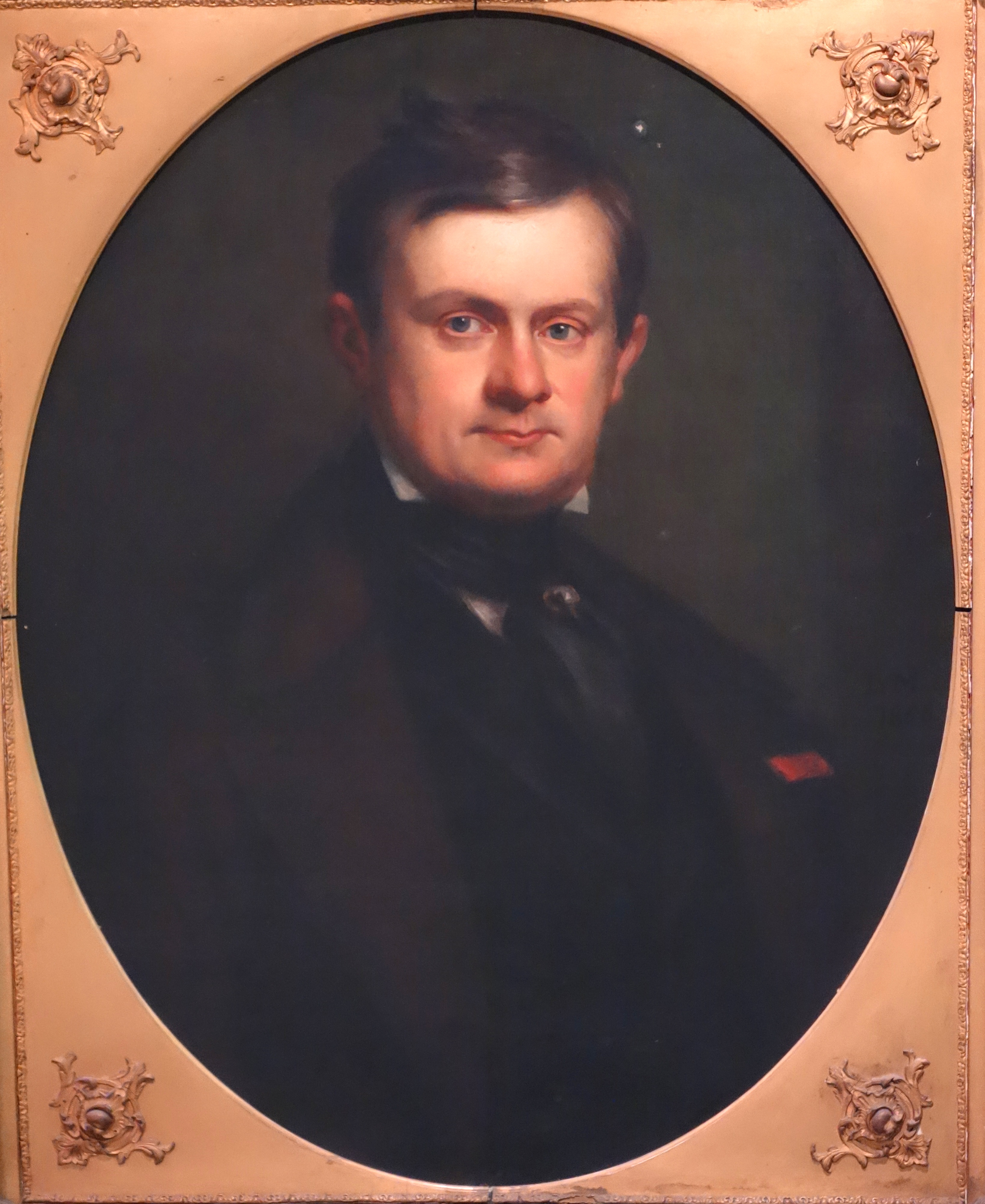 Exhibit in the Museum M - Leuven, Belgium. This artwork is in the public domain because the artist died more than 70 years ago.